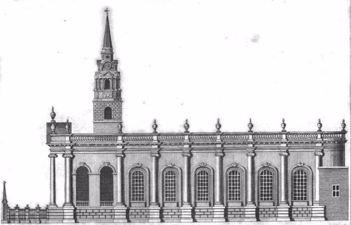 Beth-Tephillah Church, Calcutta, later the Old Mission Church. Engraving published in the Gentleman's Magazine, February 1824.